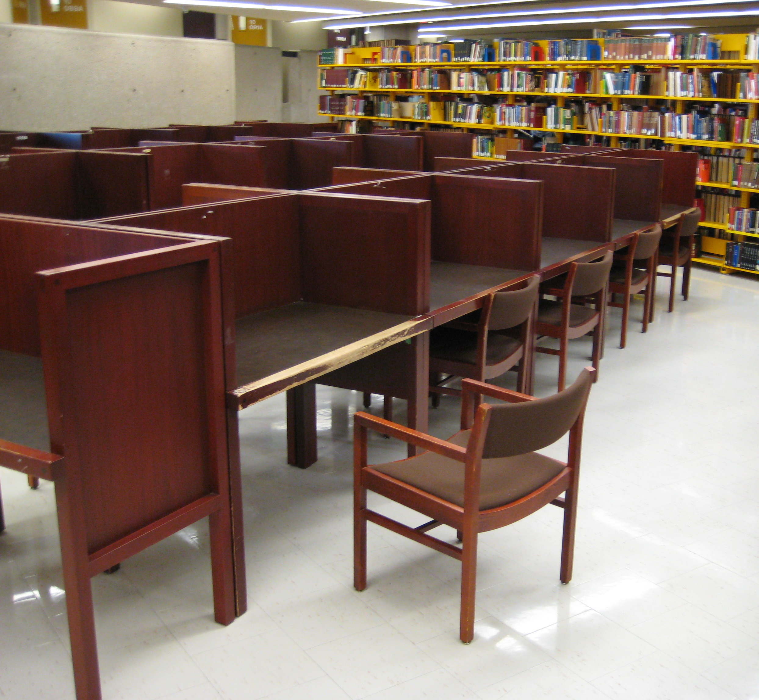 Carrel desk at Robarts Library